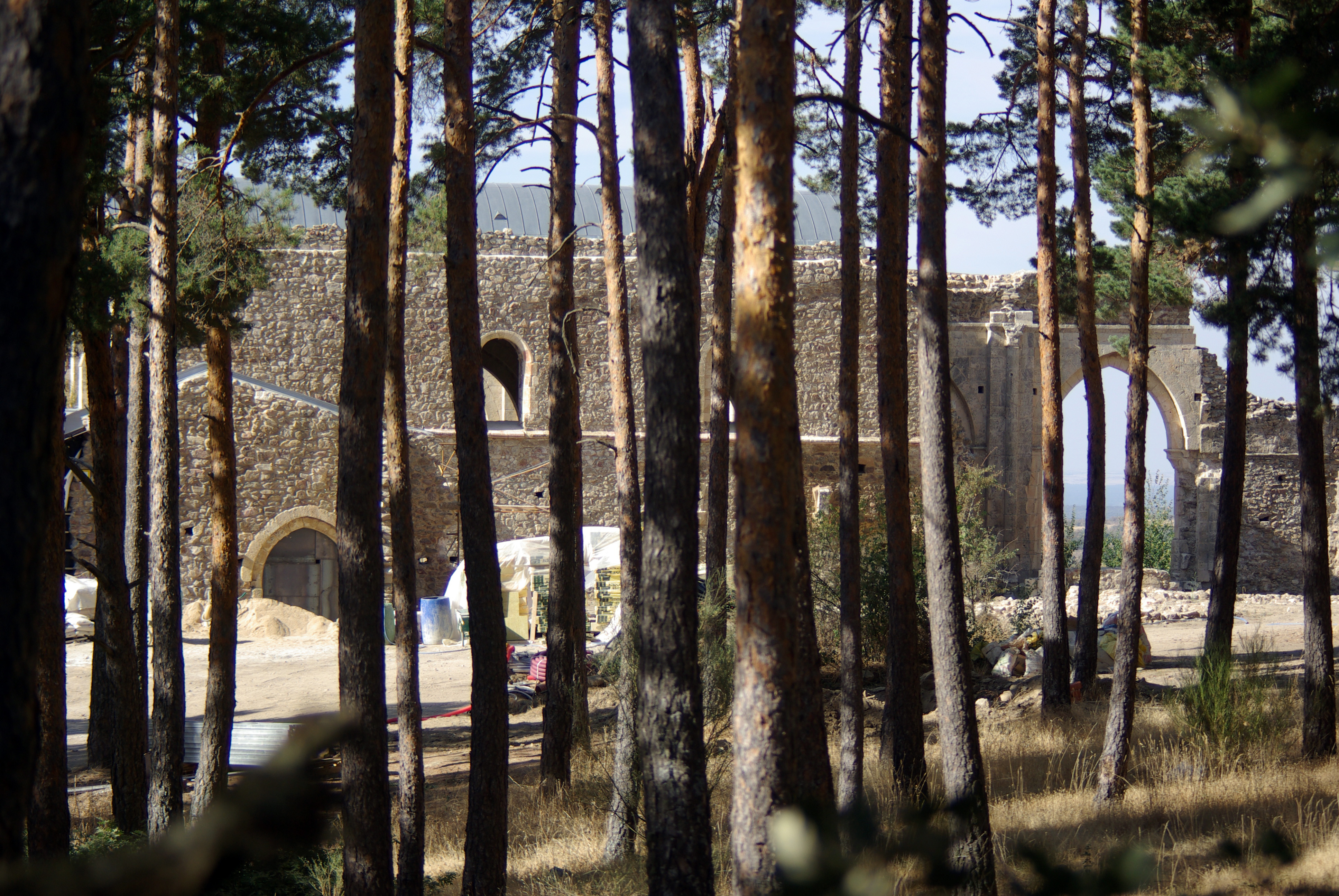 Ruins of Saint Mary monastery in Collado Hermoso (Segovia, Spain).